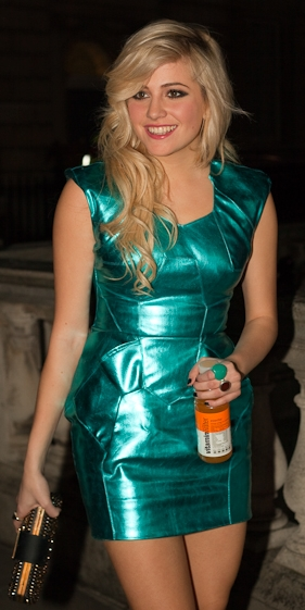 Singer Pixie Lott attending the PPQ fashion show for London Fashion Week. The real image was cropped for a better view of the article, which can be found here.